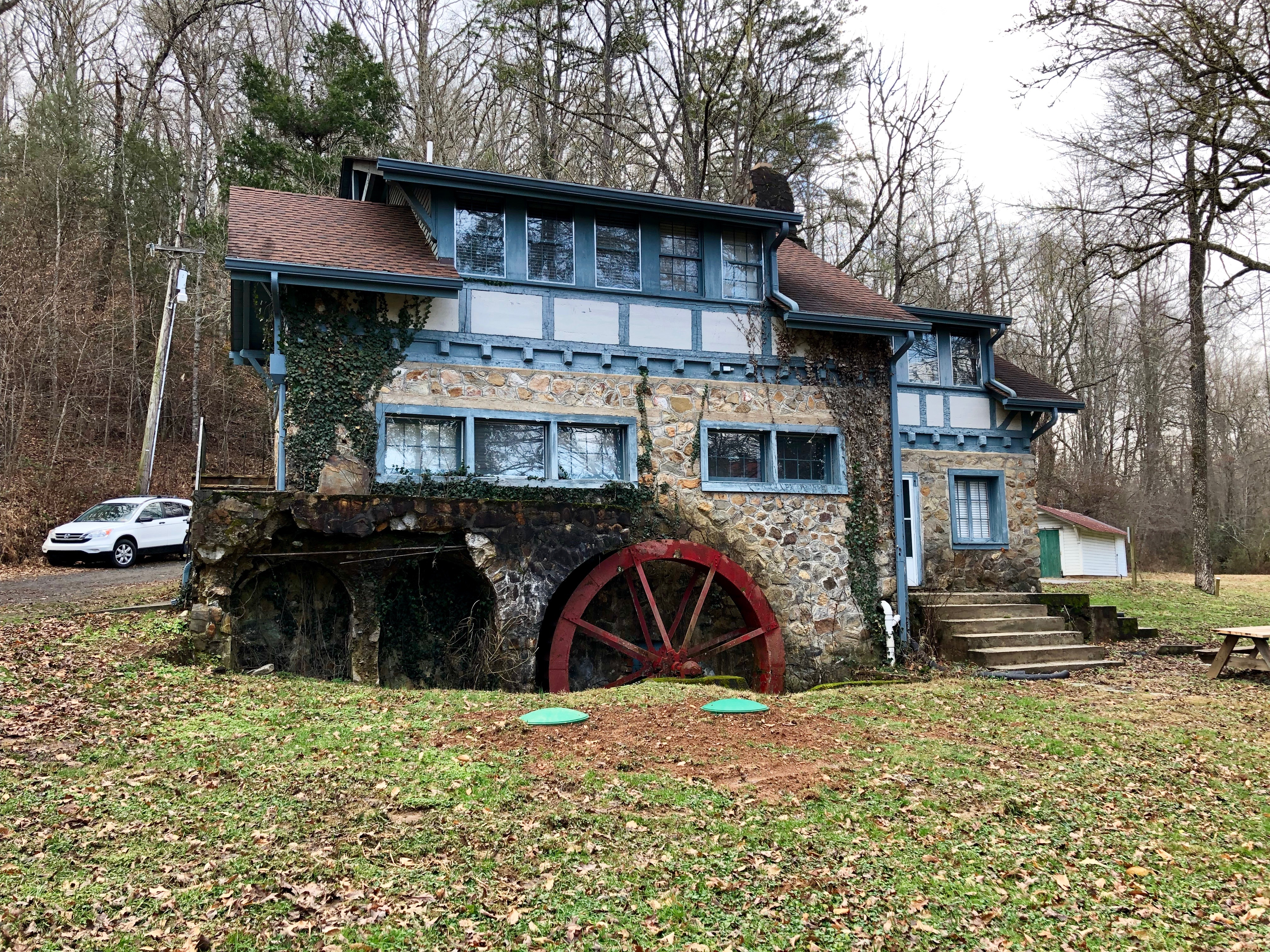 Mill House, John C. Campbell Folk School, Brasstown, NC